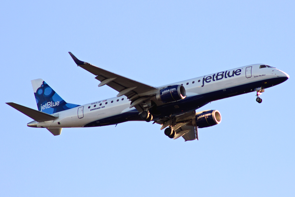 A JetBlue Embraer 190 lands in Worcester, MA